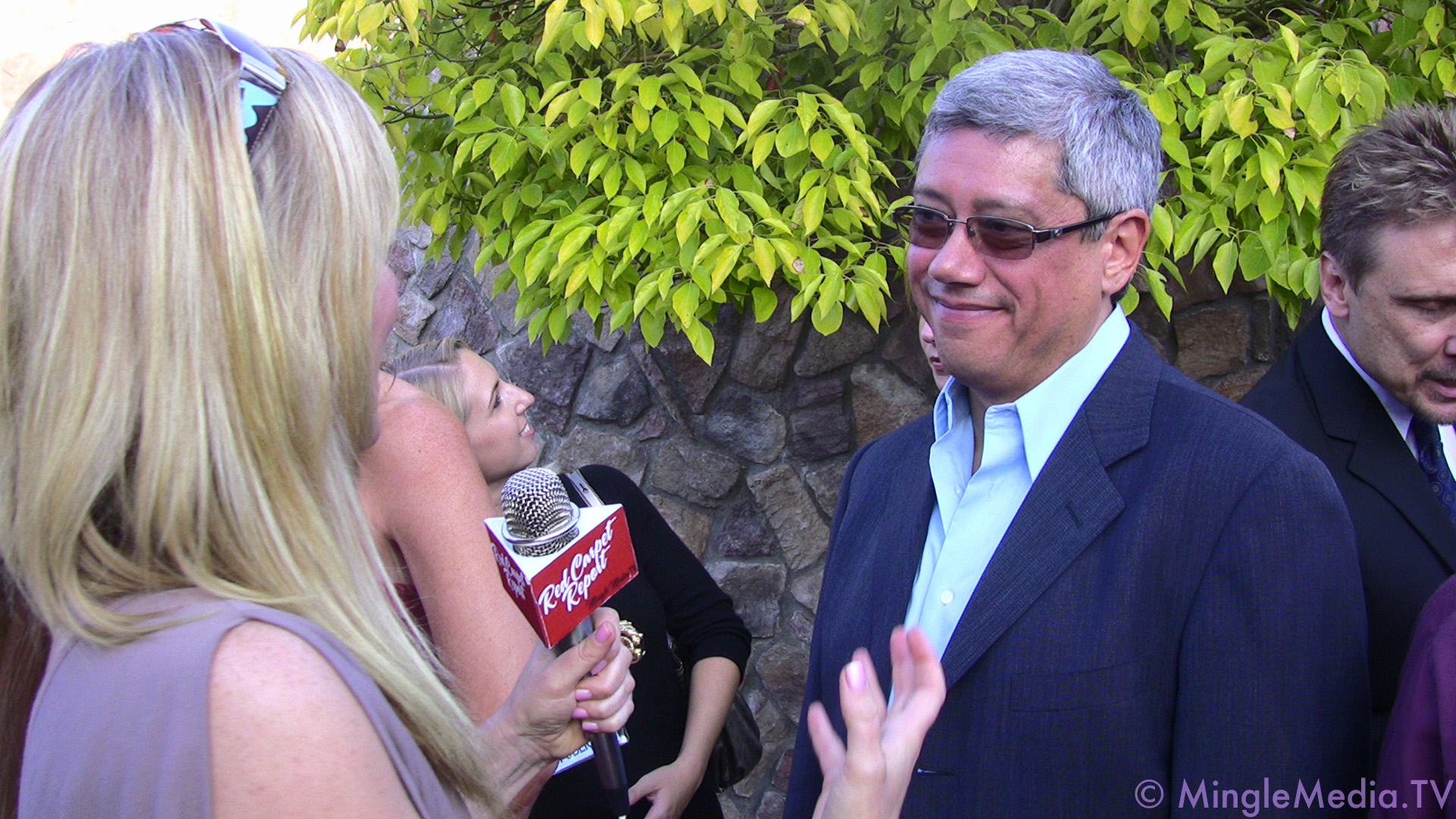 Dean Devlin at the 2011 Saturn Awards